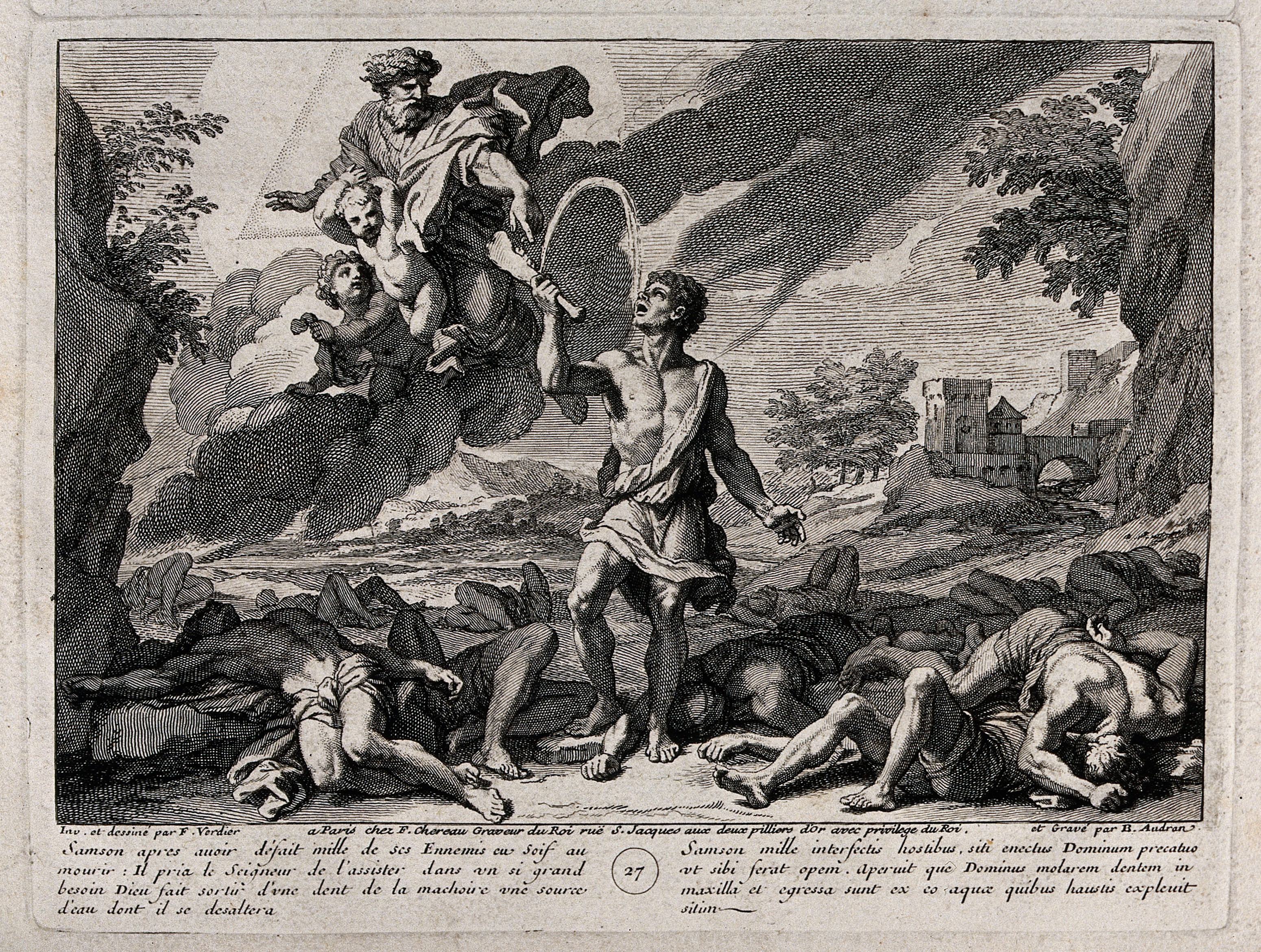 God and two cherubs make water flow from the ass's jaw that Samson has used to kill the Philistines. Engraving by B. Audran after F. Verdier, 1698. Iconographic Collections Keywords: Francois Verdier; Samson; Benoit Audran